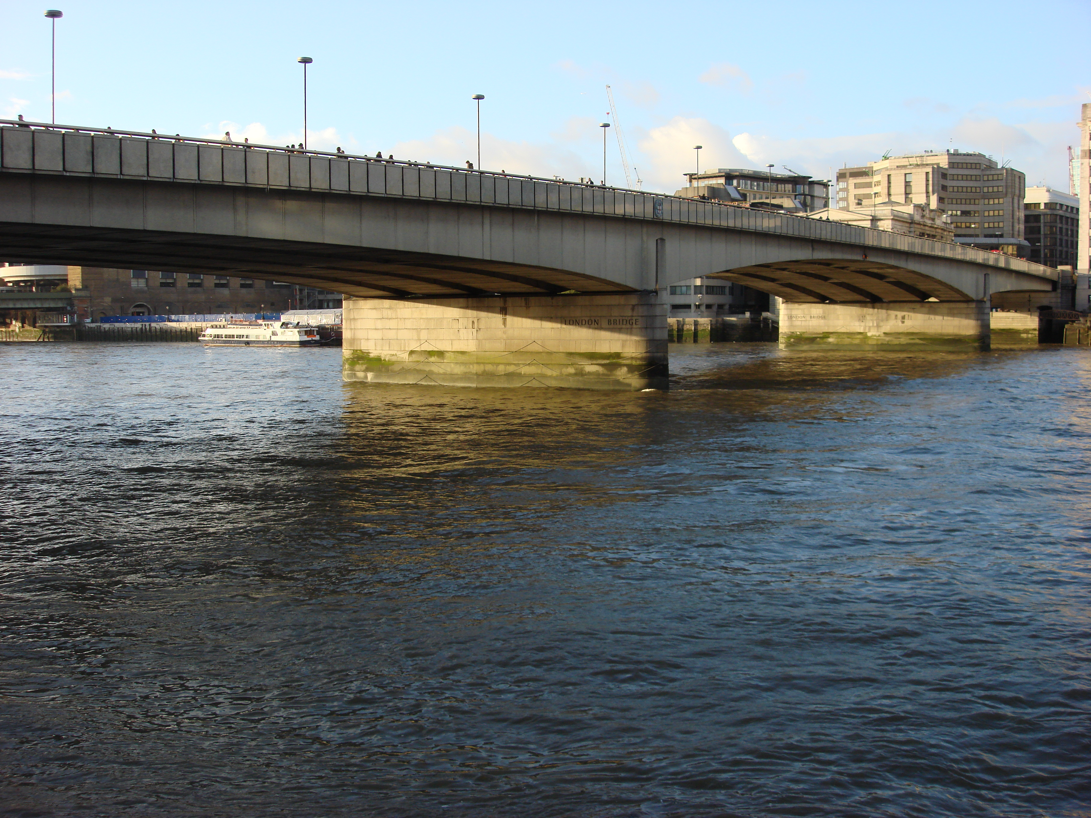 London Bridge from the South bank of the River Thames